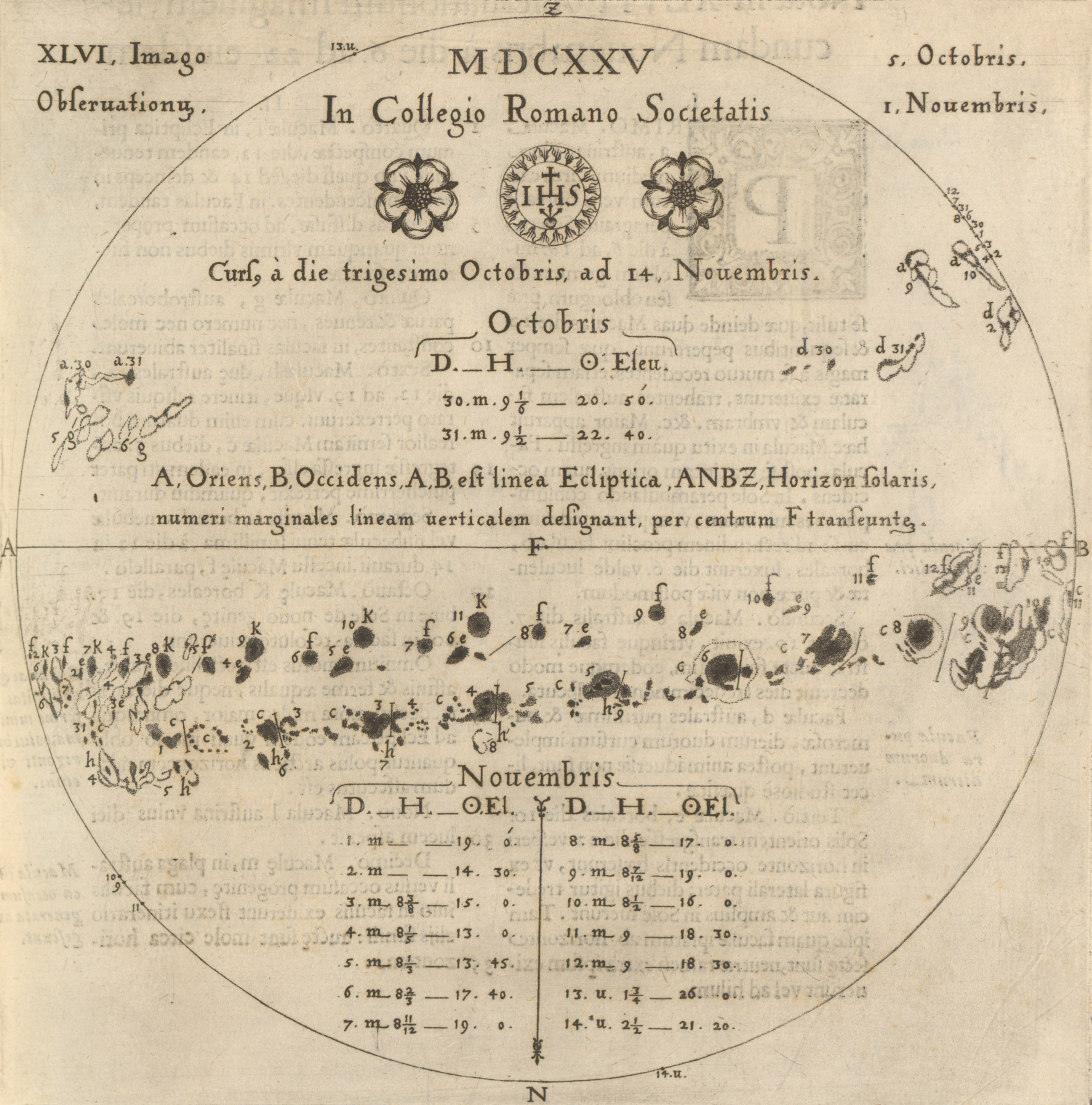 Observations of sun spots